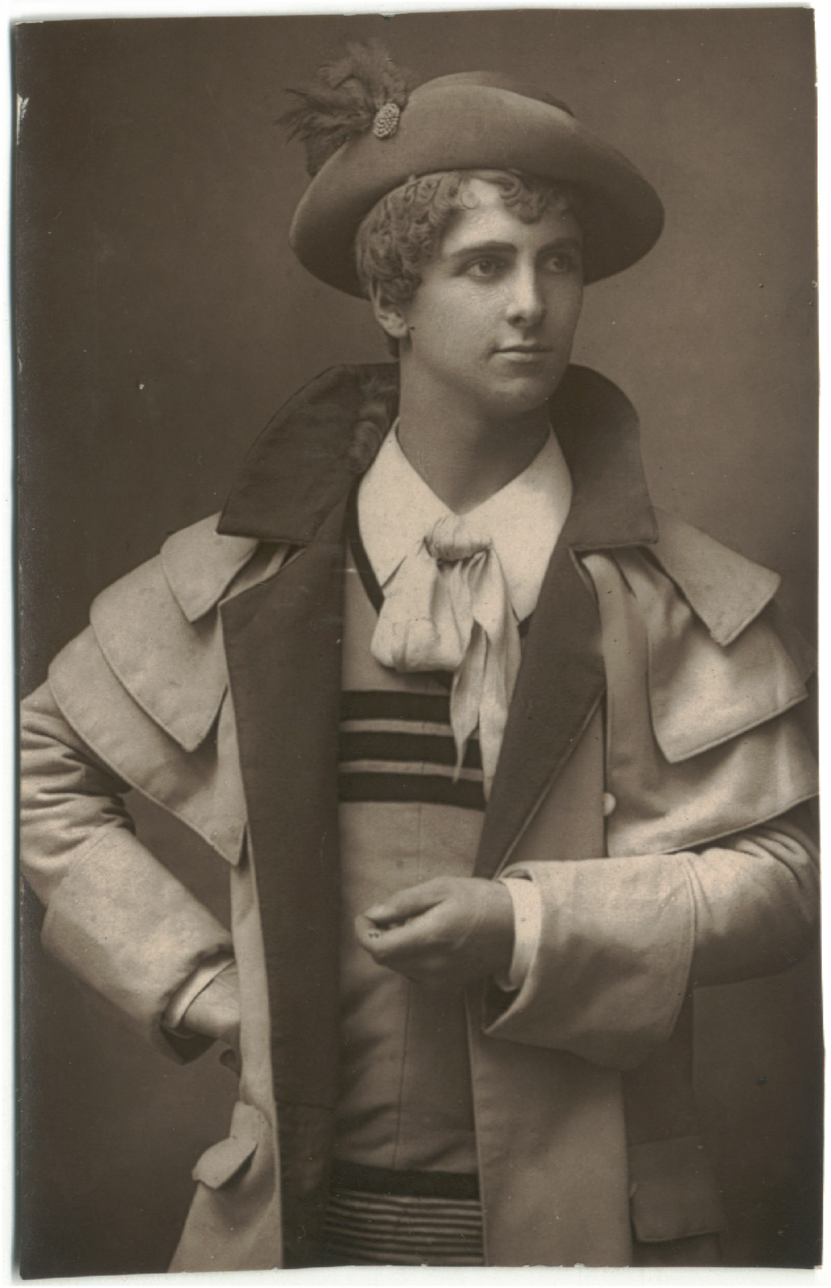 A photograph from The Theatre, A Monthly Review, Volume X, July to December, 1887, Carson a Comerford, London, 1887. Original in the National Portrait Gallery as NPG Ax9300.